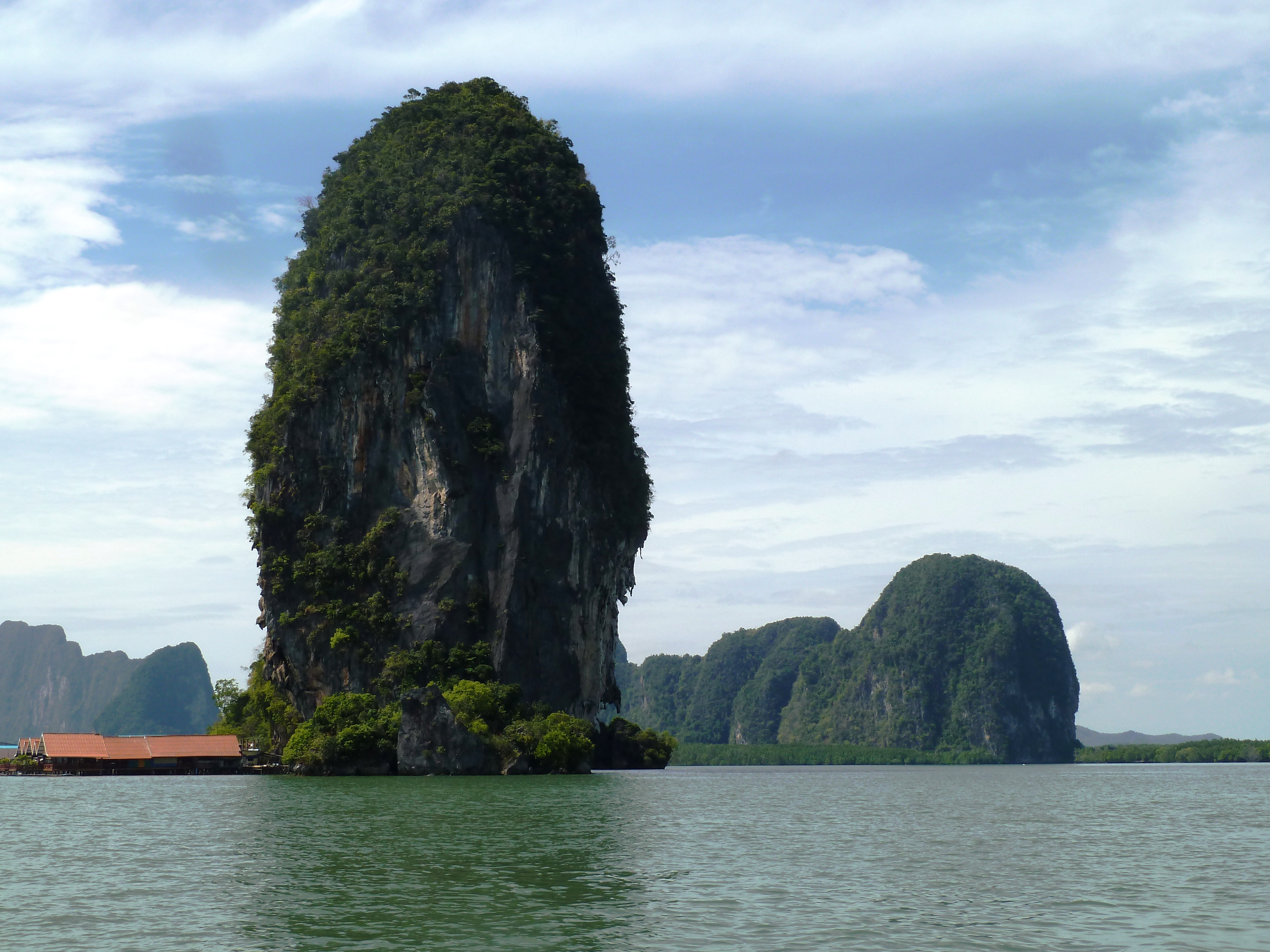 Ko Panyi village, Ao Phang Nga National Park, Phang Nga Bay, Thailand